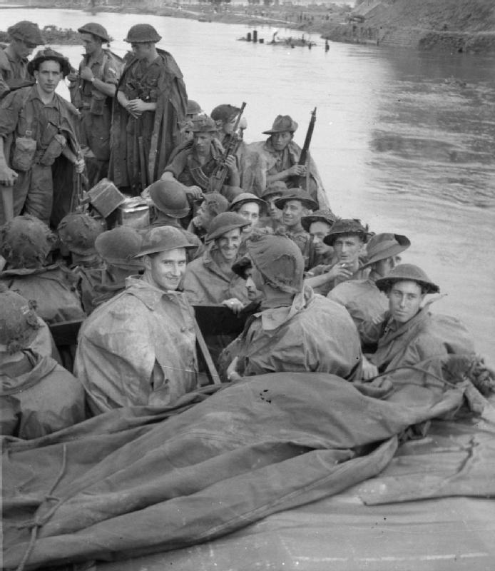 The British Army in Burma 1945 Men of the 1st Battalion, Queen's Own Regiment, on patrol aboard an assault boat on the Pegu Canal near Waw, 12-13 July 1945.